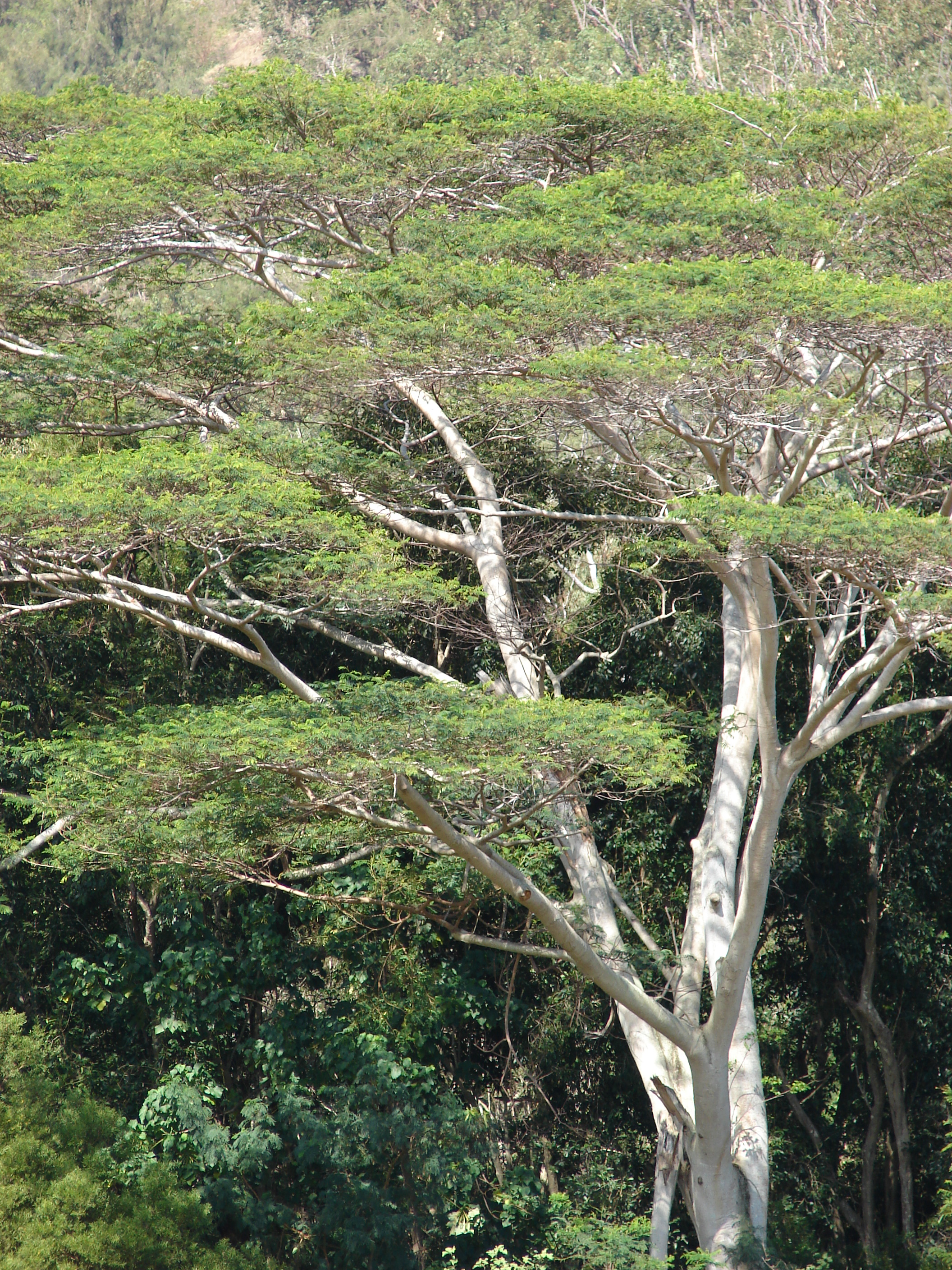 Falcataria moluccana (habit). Location: Maui, Old macadamia nut orchards Waiehu